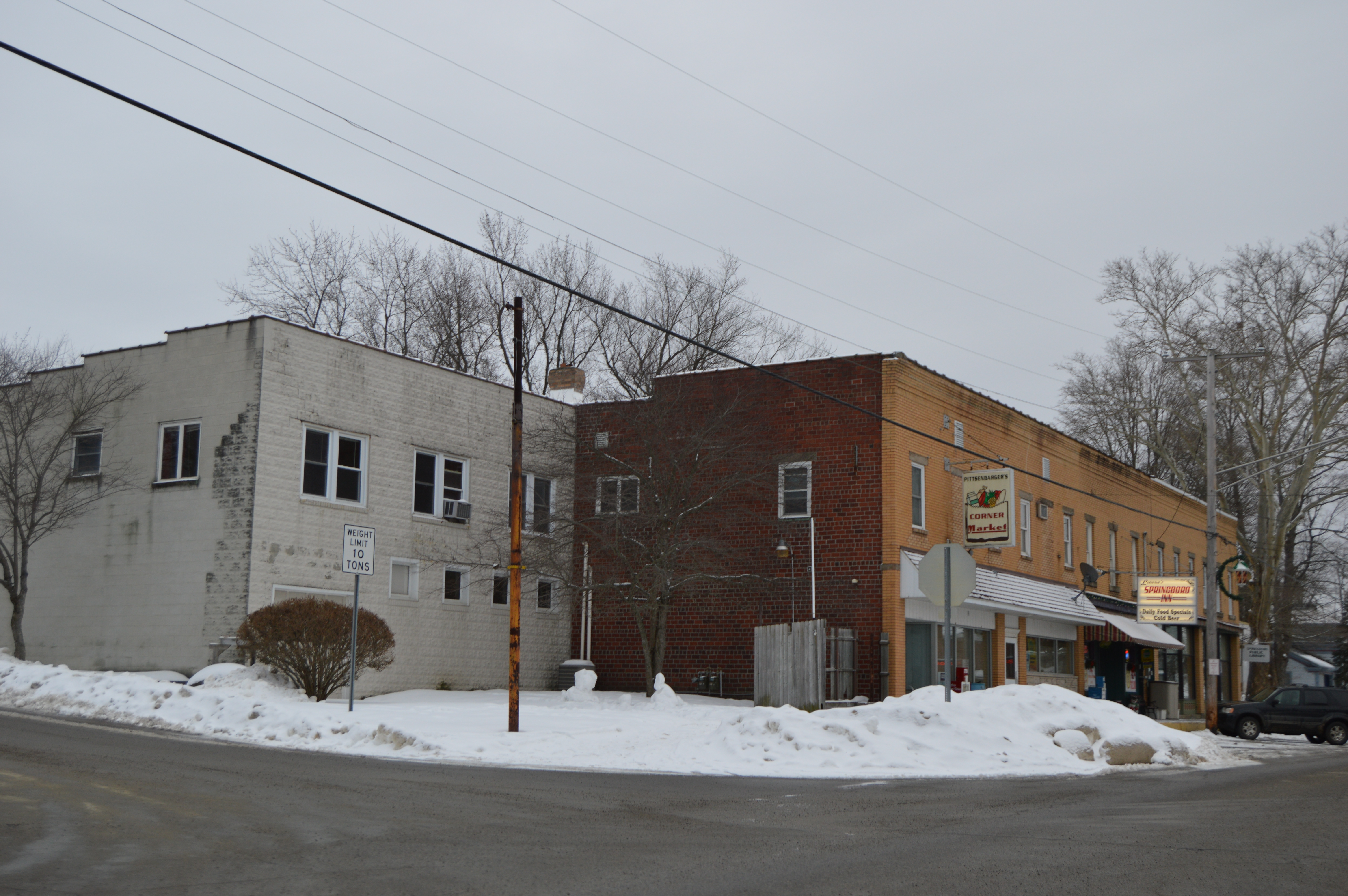 Buildings on the southeastern corner of the junction of Main (Pennsylvania Route 18) and Beaver Streets in central Springboro, Pennsylvania, United States.